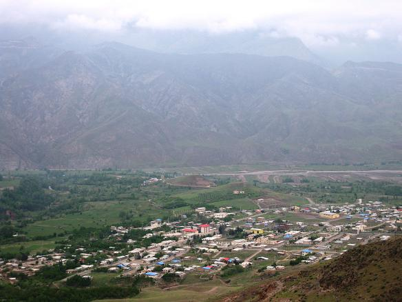 View of Razmian from Lambsar, Alamut Iran